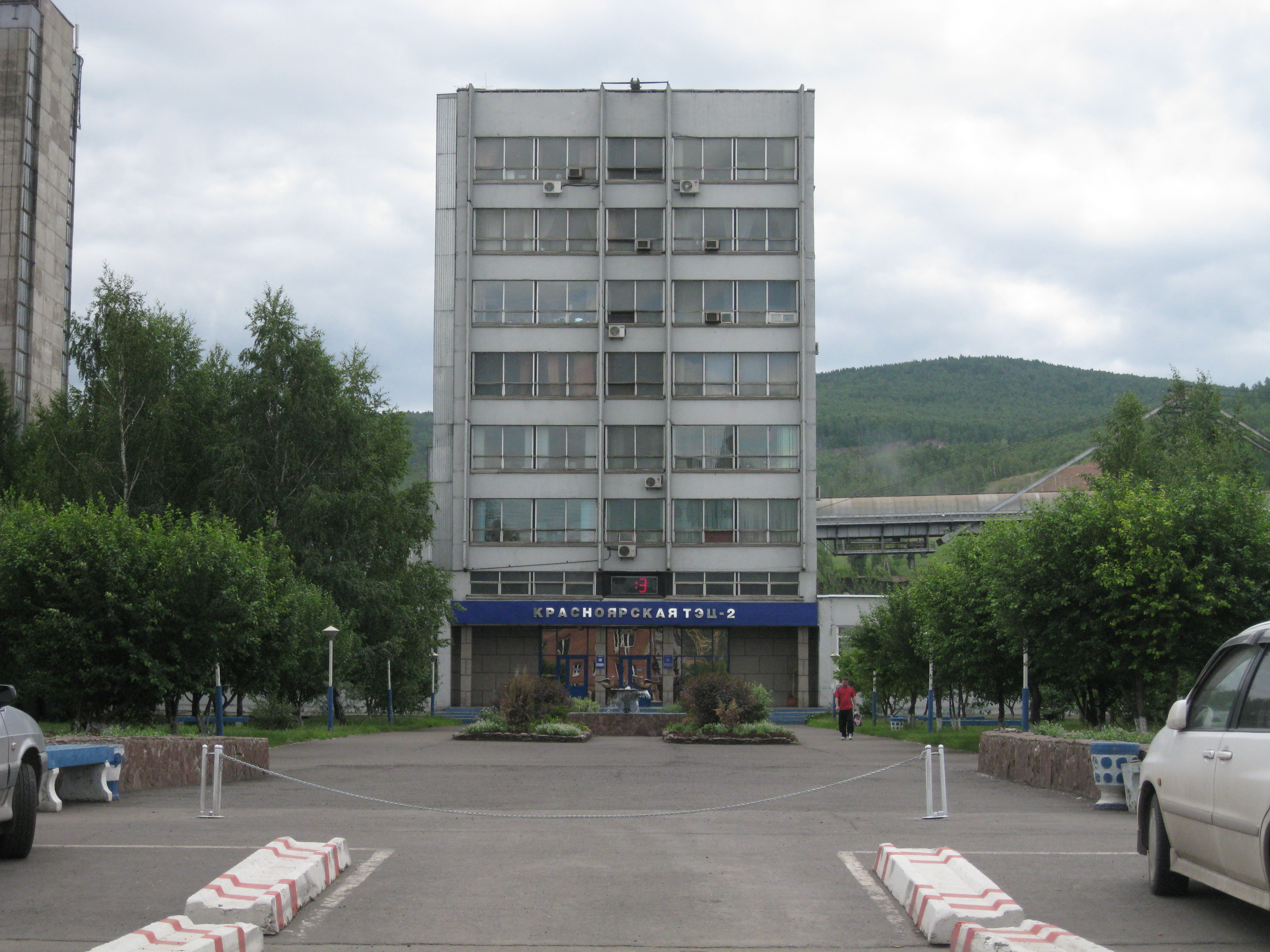 Krasnoyarsk combined heat and power plant N 2 (Office building)